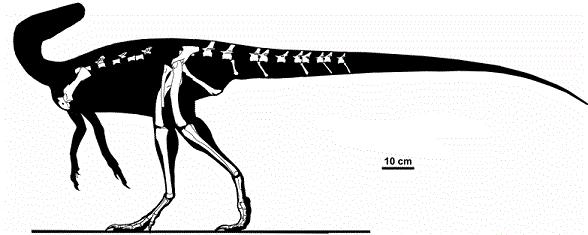 Skeletal reconstruction of Guaibasaurus candelariensis showing preserved holotype material. Scale bar is 10 cm